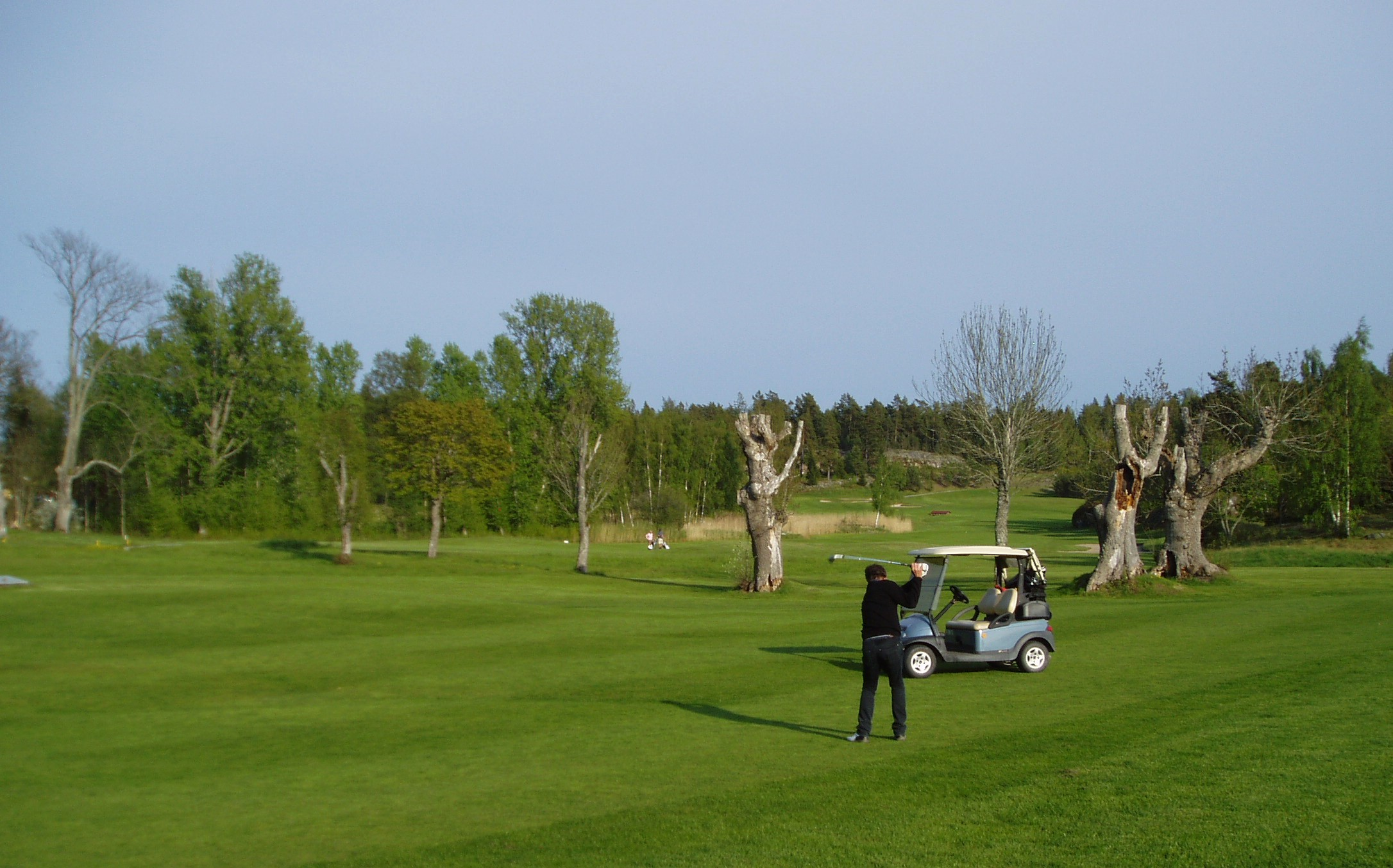 Fågelbro, Golf & Country Club